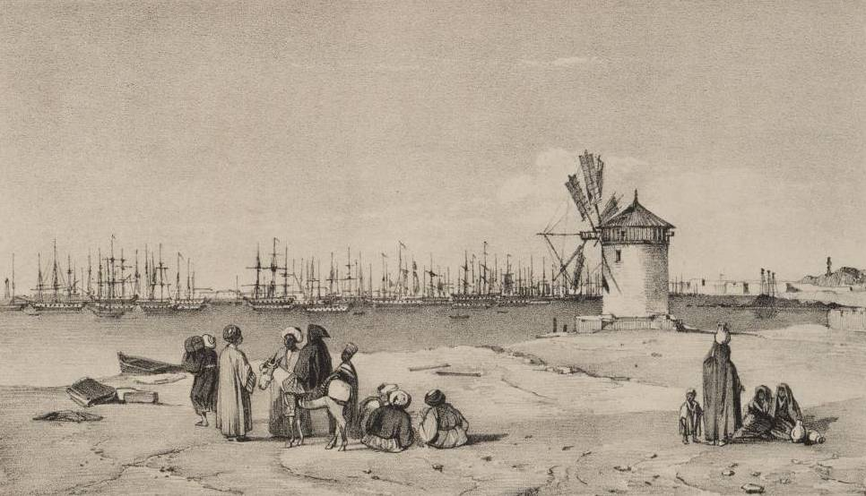 EGYPTIAN AND TURKISH FLEET AT ALEXANDRIA.View of a large fleet of ships at Alexandria.